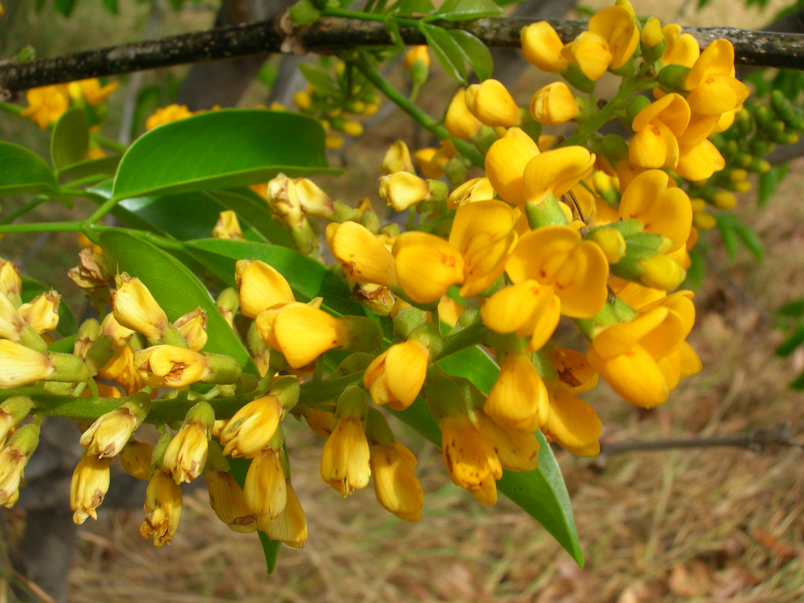 Platymiscium stipulare (flowers). Location: Molokai, Kalanianaole Colony